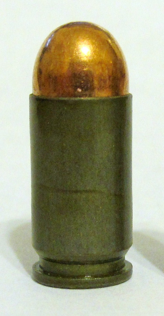 9x18 mm Makarov Full Metal Jacket Bullet + Casing